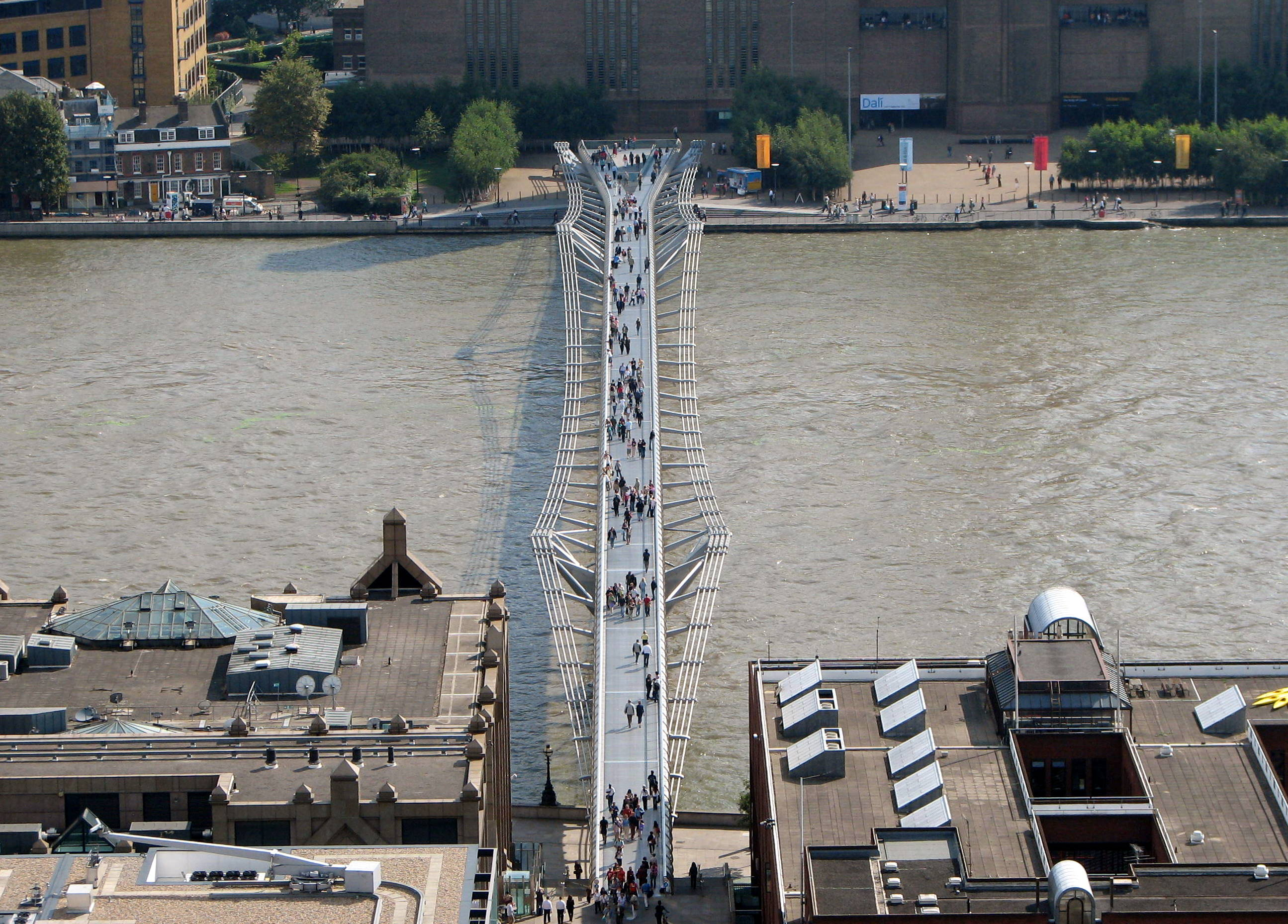 The Millennium Bridge, London, England